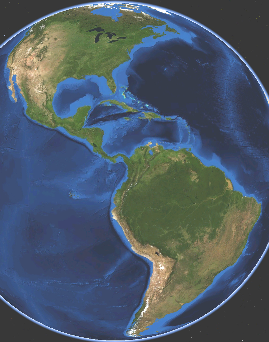 Satellite map of America. Land terrain and bathymetry (ocean-floor topography).